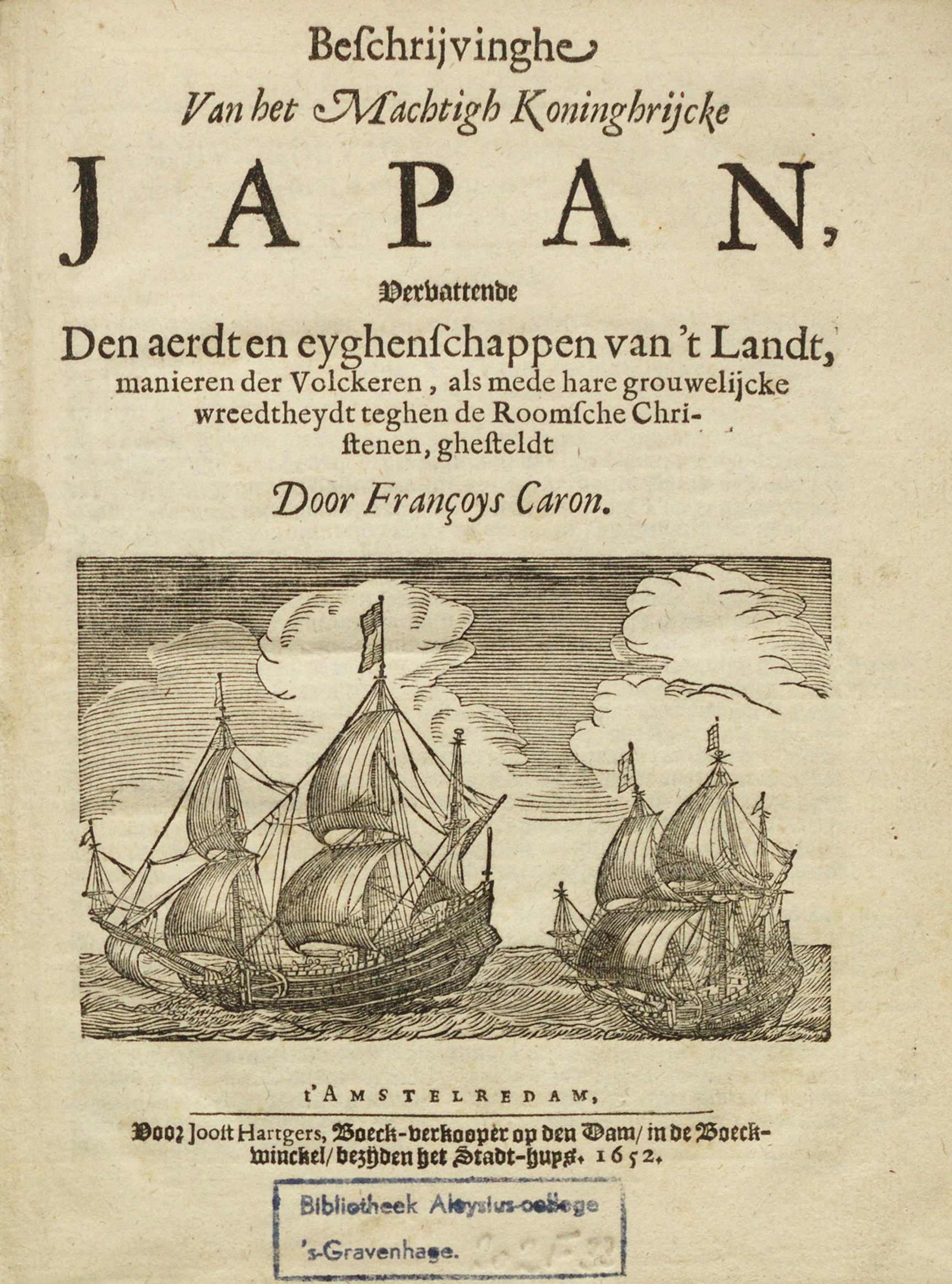 Title page of 1652 Dutch edition.